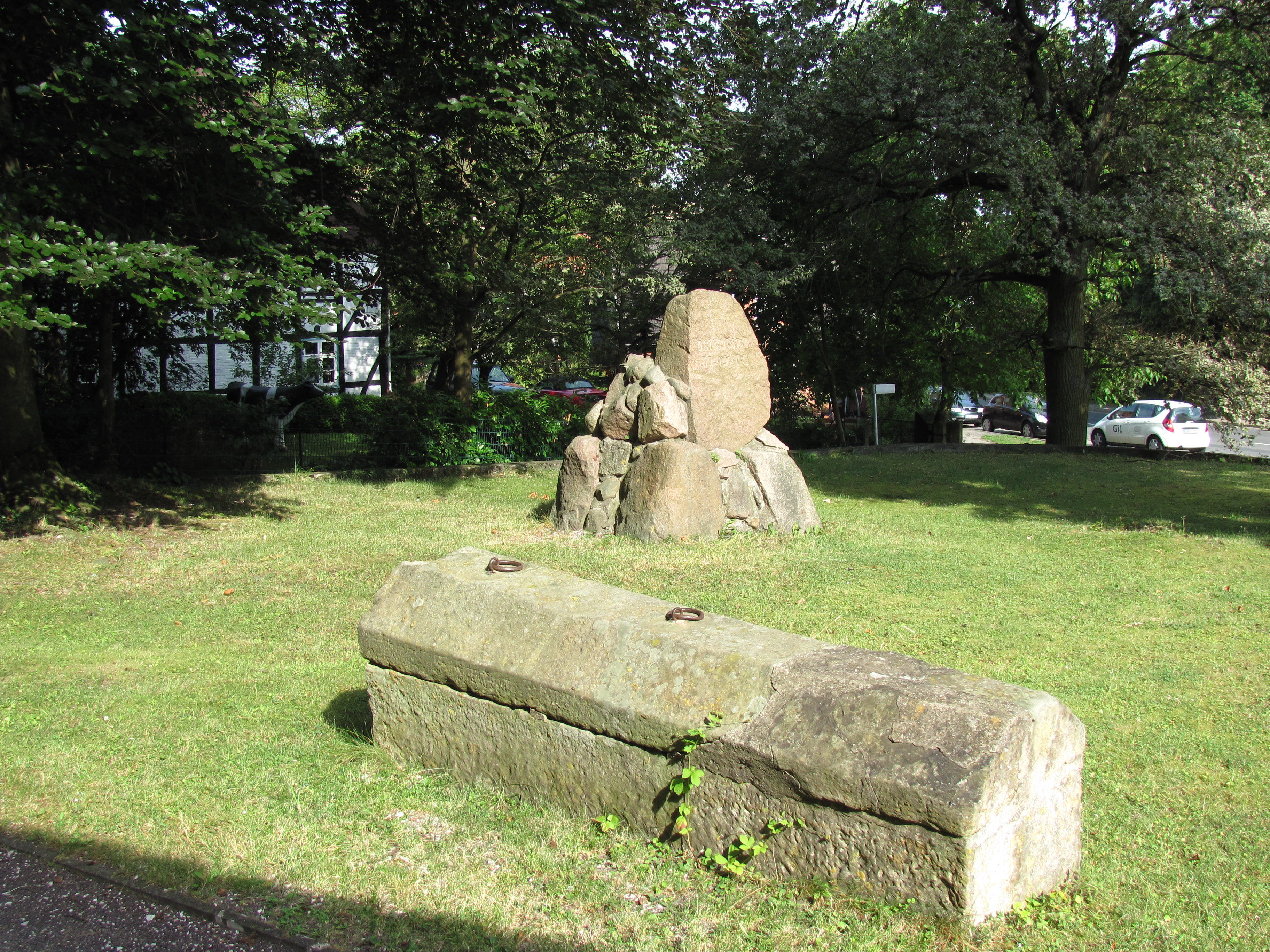 Stone coffin (13th century), Eberholzen, Germany